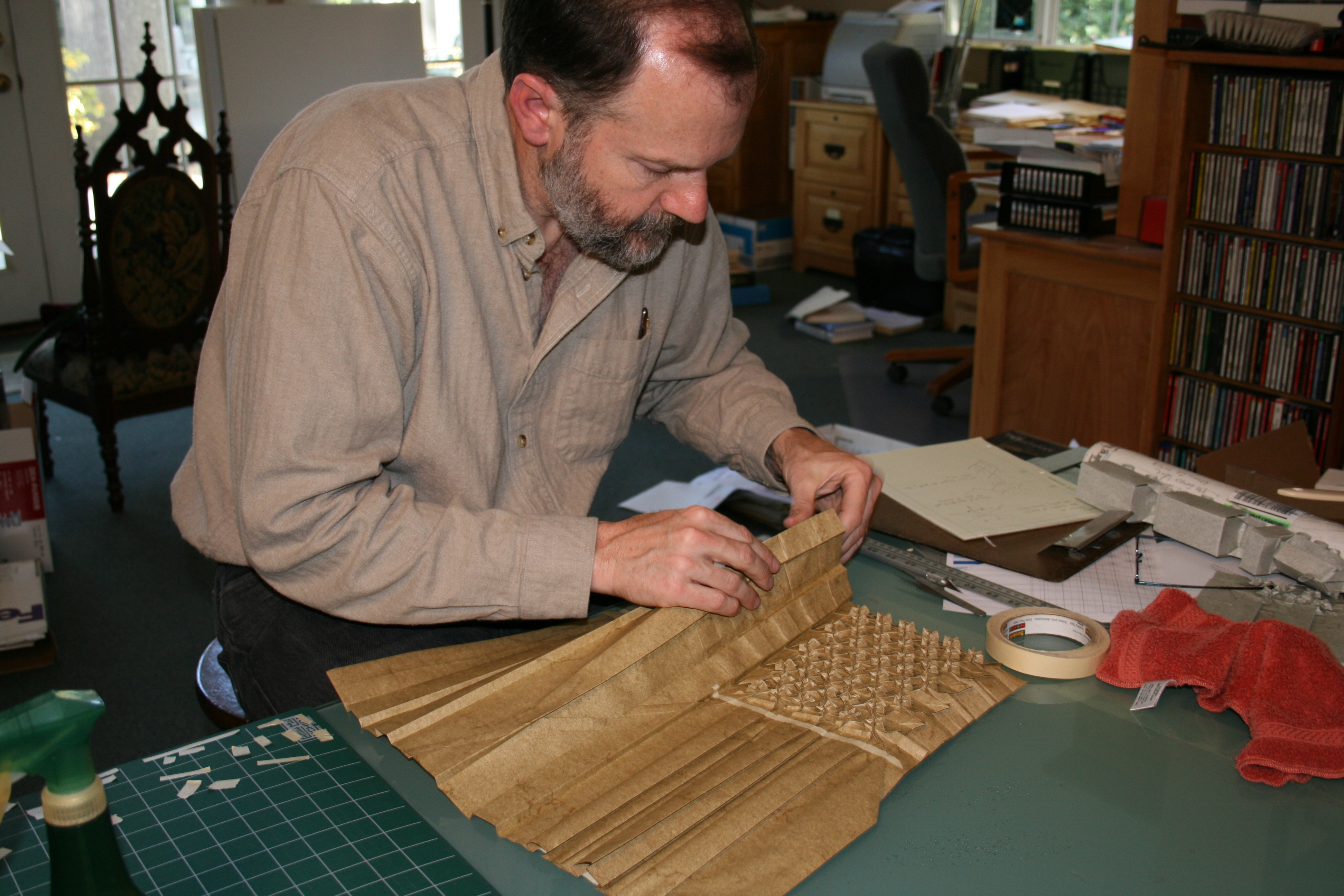 Dr. Robert Lang folding origami (of the American flag)